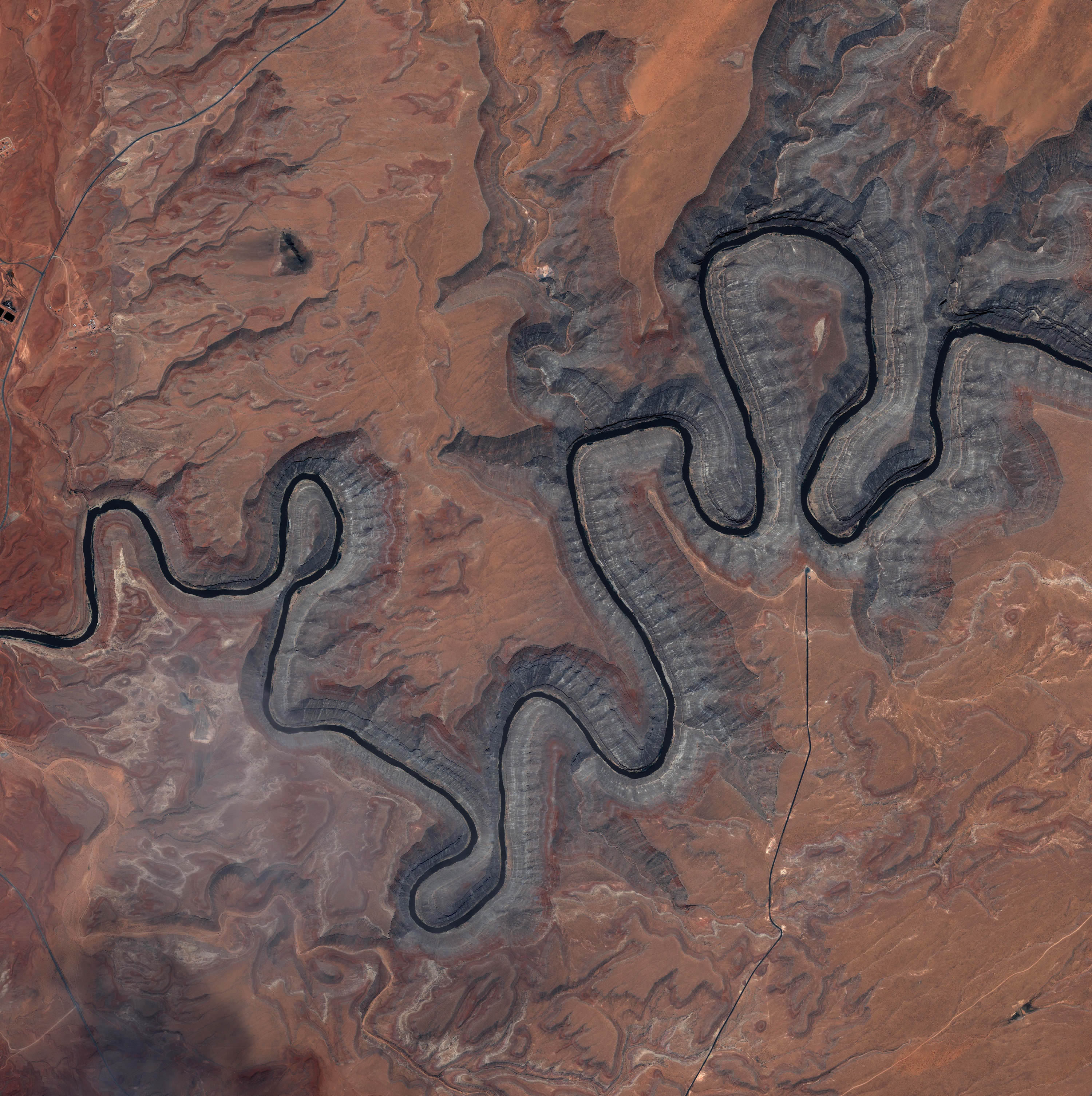 The sinuous black ribbon of the San Juan River cuts deep into the sandstone-pink landscape of southeastern Utah in this Ikonos image, taken on May 9, 2004. The image shows Goosenecks State Park, where the river is surrounded by canyon walls more than 1,000 feet high. Light gray, pink, and white striations (parallel lines) on the canyon walls mark where the river has eaten away at the ancient landscape to reveal 16 layers of geology, the oldest of which is well over 300 million years old. The ancient San Juan River flows out of the San Juan Mountains in southwestern Colorado. Early in its history, the river flowed over a flat landscape where swirling water wandered freely in ever-changing loops. Over time, the river wore away at the earth, cutting the deep canyons seen here, until its course was fixed into a groove. At the same time, the land of southern Utah and northern Arizona was being pushed up, making the groove even deeper. The result -- the chasms of Goosenecks State Park -- is one of the best examples of an entrenched river meander in the world. NASA Identifier: goosenecks_iko_2004129